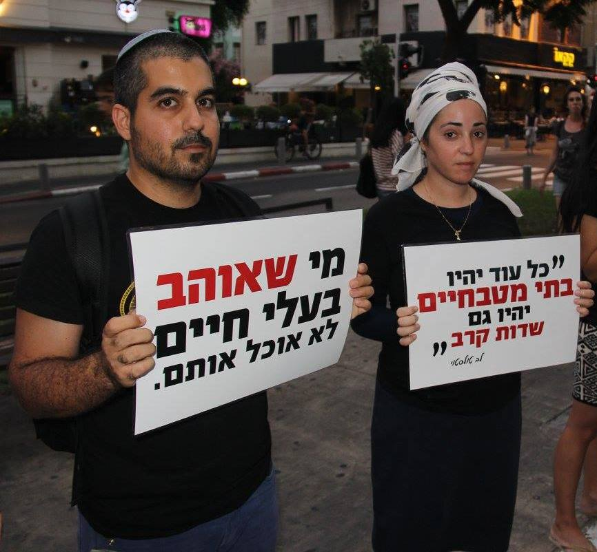 Roaring Silence protest against consumption of animal products, 8 Sepetmber 2016, Tel Aviv Israel